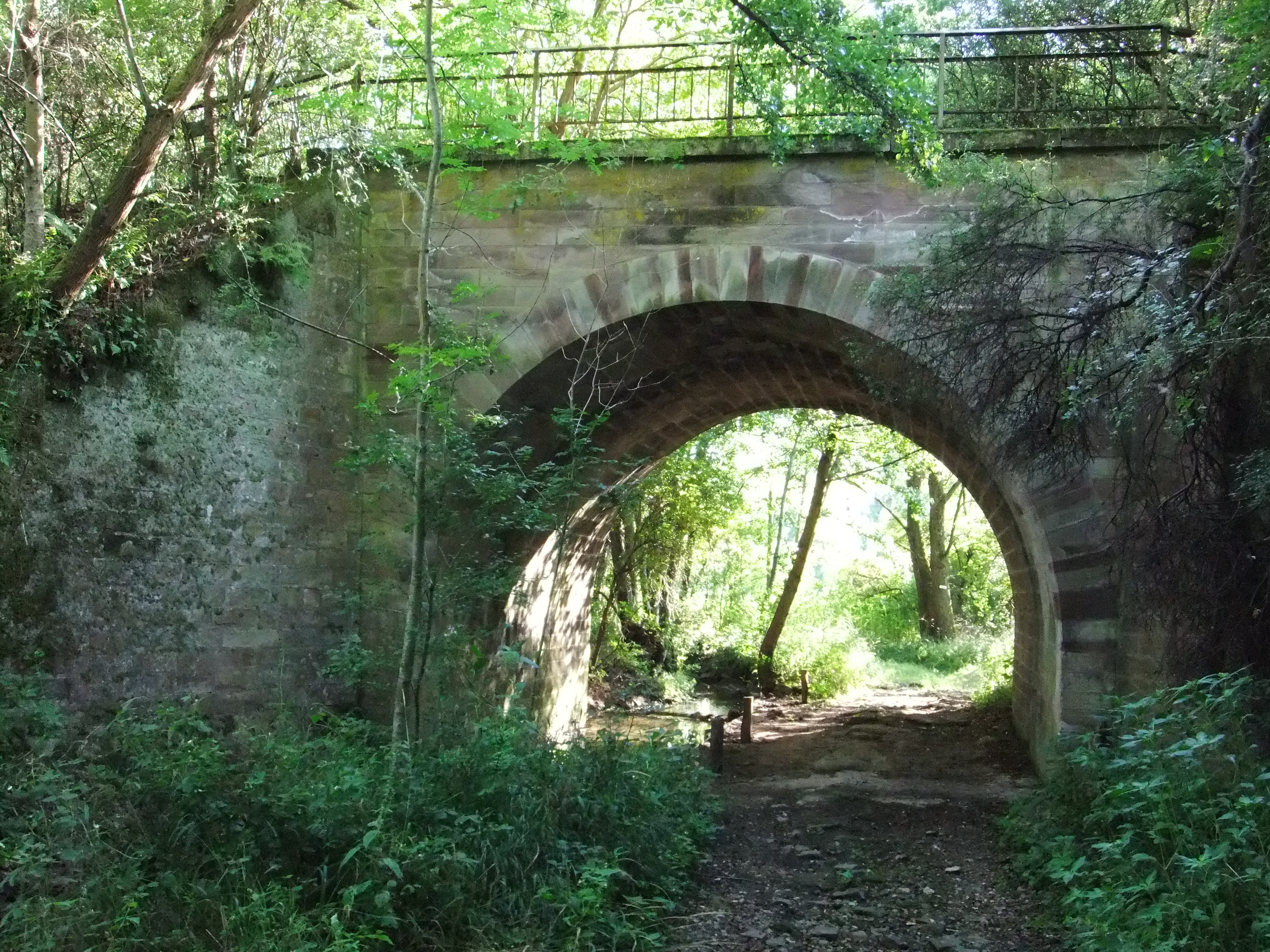 bridge of railway Steinbourg - Obermodern over track and le Griesbaechel between Hattmatt and Dossenheim, Alsace